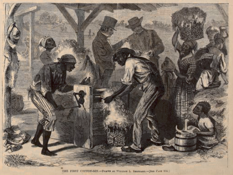 African Americans slaves using the First cotton-gin, 1790-1800, drawn by William L. Sheppard. Illustration in Harper's weekly, 1869 Dec. 18, p. 813. Harpers Weekly's illustration depicting event of some 70 years earlier.The illustration is of a Roller Cotton Gin and not an illustration of a Whitney Spike Gin or Holmes Saw Gin.The Library of Congress, Card 91784966, Call Number : Illus. in AP2.H32 Case Y [P&P], Reproduction number : LC-USZ62-103801 (b&w film copy neg.), Medium: 1 print : wood engraving. CREATED/PUBLISHED: 1869 Dec. 18.